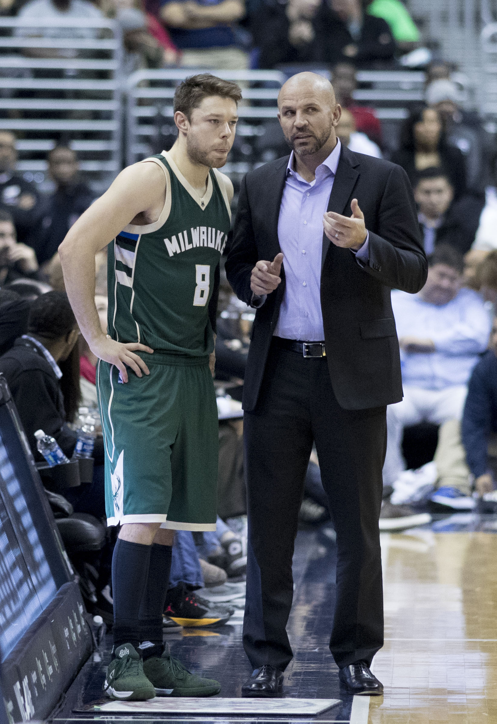 Bucks at Wizards 12/10/16